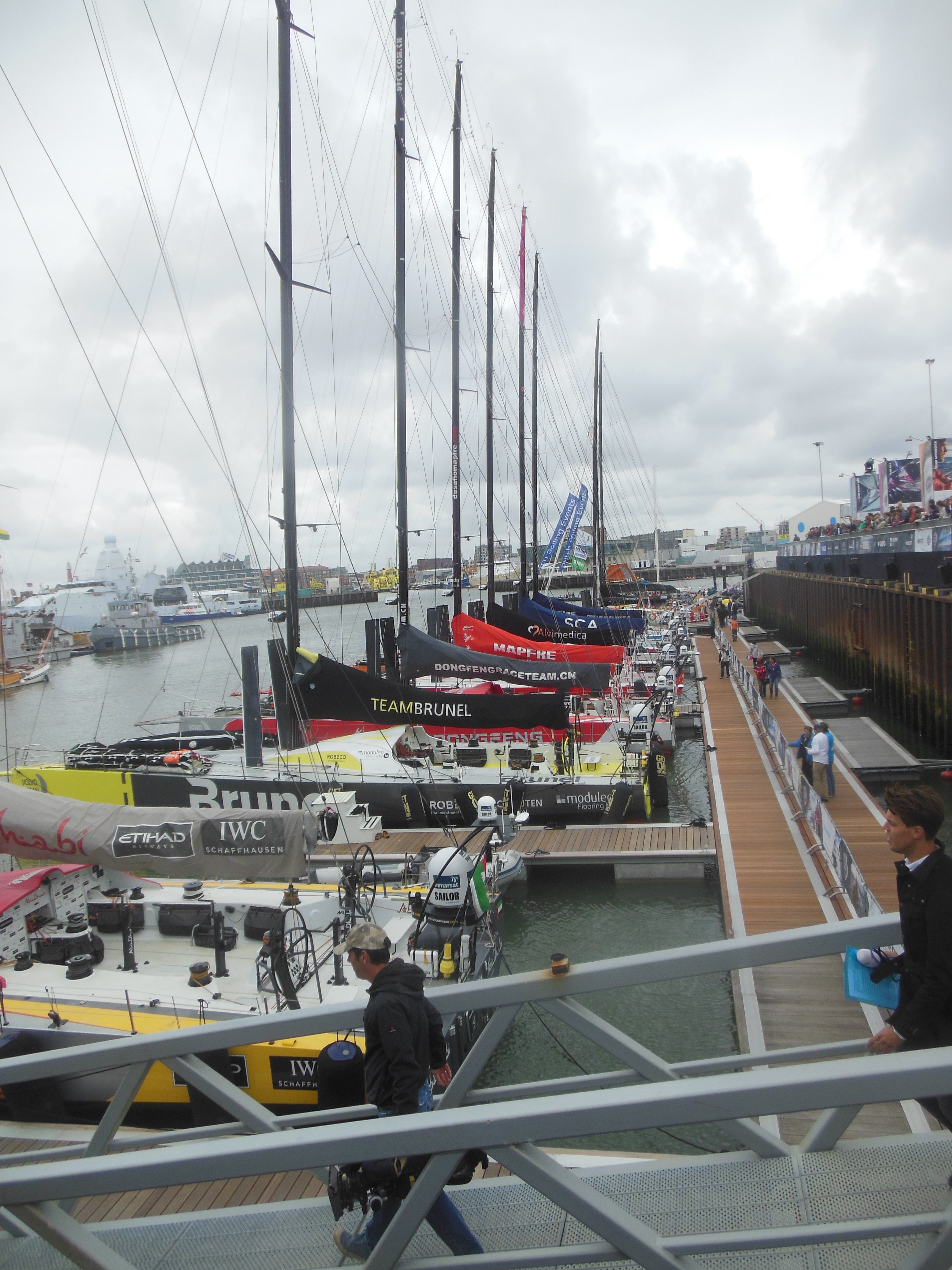 VO65 boats in Scheveningen harbour during the Pitstop of the Volvo Ocean Race 2014-25